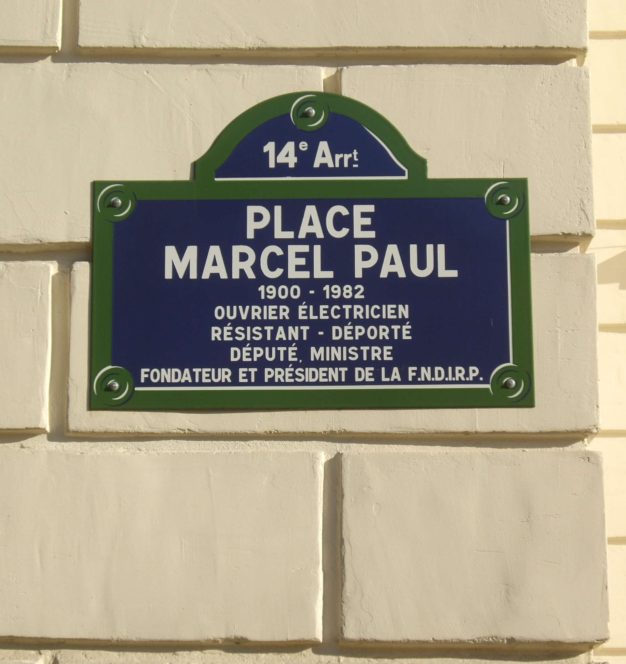 Place Marcel-Paul, Paris 14e. « Marcel Paul, 1900-1982, ouvrier électricien, résistant déporté, député, ministre, fondateur et président de la FNDIRP. »